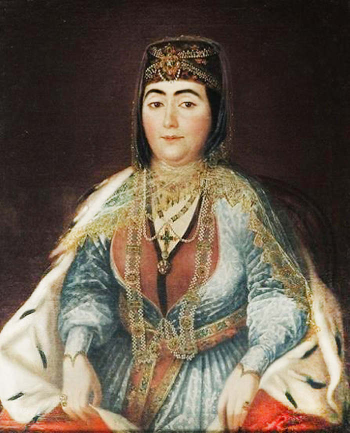 Queen Darejan, wife of Erekle II of Georgia. 18th century